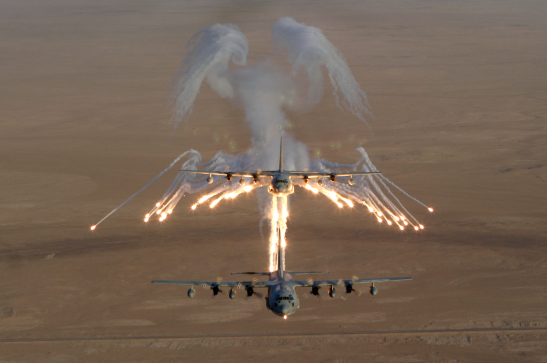 Central Command Area of Responsibility (Sep. 4, 2003) -- Aerial shot over Iraq of a KC-130 “Hercules” assigned to Marine Aerial Refueler-Transport Squadron Two Thirty Four (VMGR-234) firing flares used to counter attack surface to air missiles. U.S. Marines are deployed to Southwest Asia in support of Operations Iraqi Freedom. U.S. Marine Corps photo by LCpl Andrew Williams. (RELEASED)